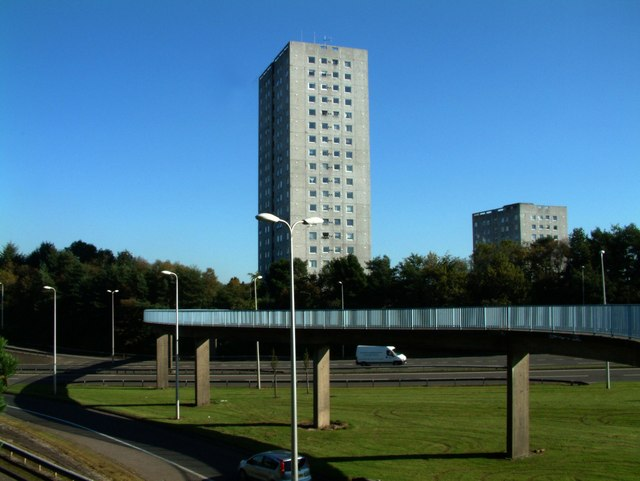 The Snake Bridge This footbridge can be found in Cumbernauld, Scotland. The bridge takes pedestrians from Seafar to Kildrum and it crosses the A8011, I liked the shadow of the bridge on the ground to the left, it shows us the shape of the bridge, Cumbernauld has many blue coloured footbridges that cross main roads. The tower block at the other side of the bridge is called Stuart House.